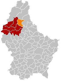 Own edit of Kanton WiltzLocatie.png